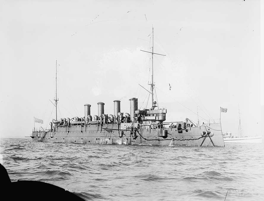 U.S.S. Columbia